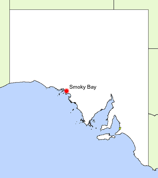 Modification of Dicemans original image found on the commons here; Shows location of Smoky Bay. colours modified